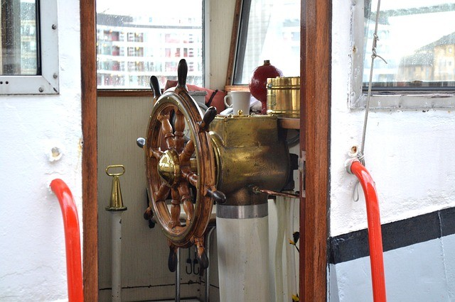 Naval Brass Is Best Used on Boat Fixtures and Other Marine Settings